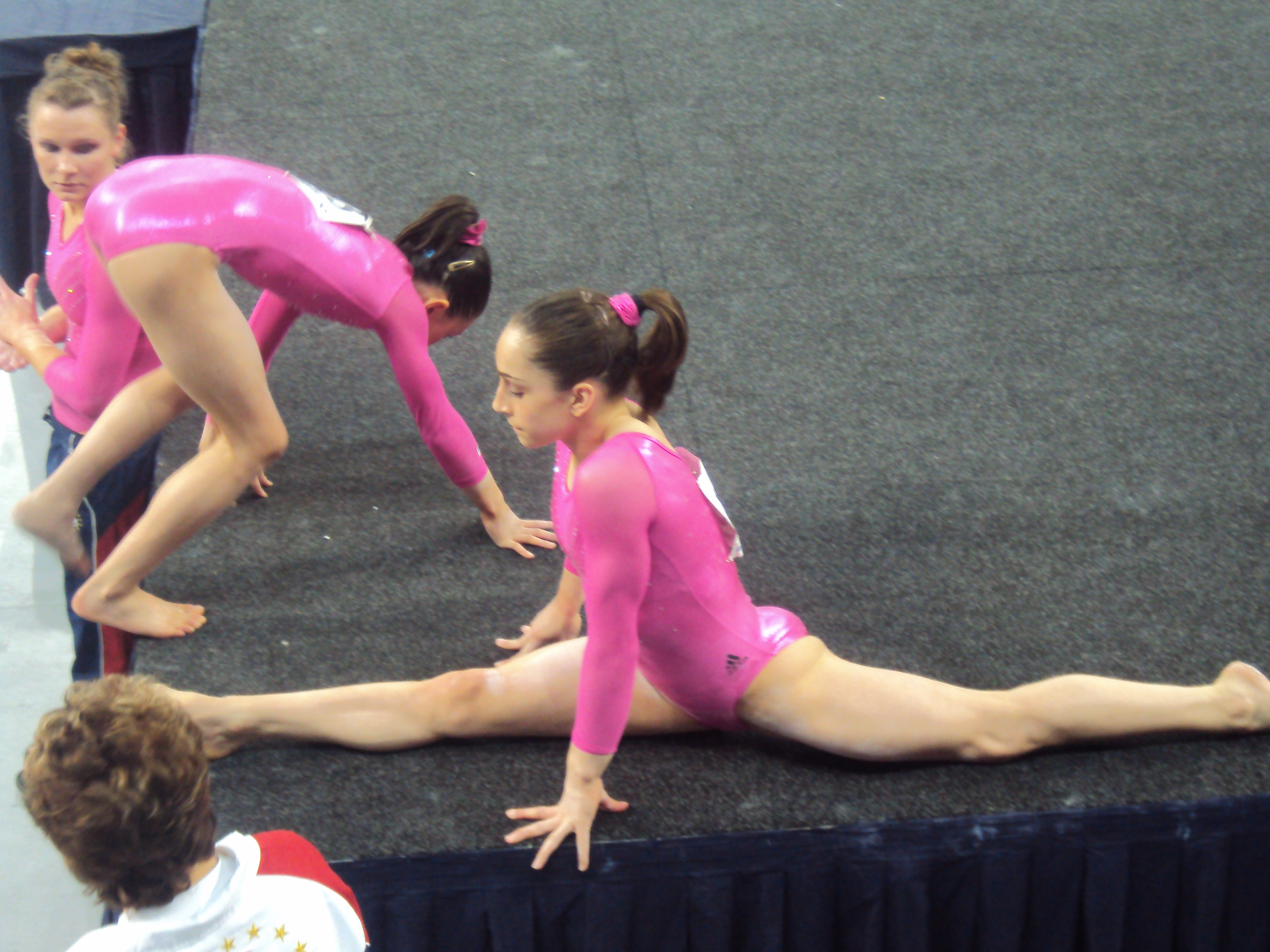 Jordyn Weiber stretches on the podium at the Pacific Rim championships in Melbourne in 2010